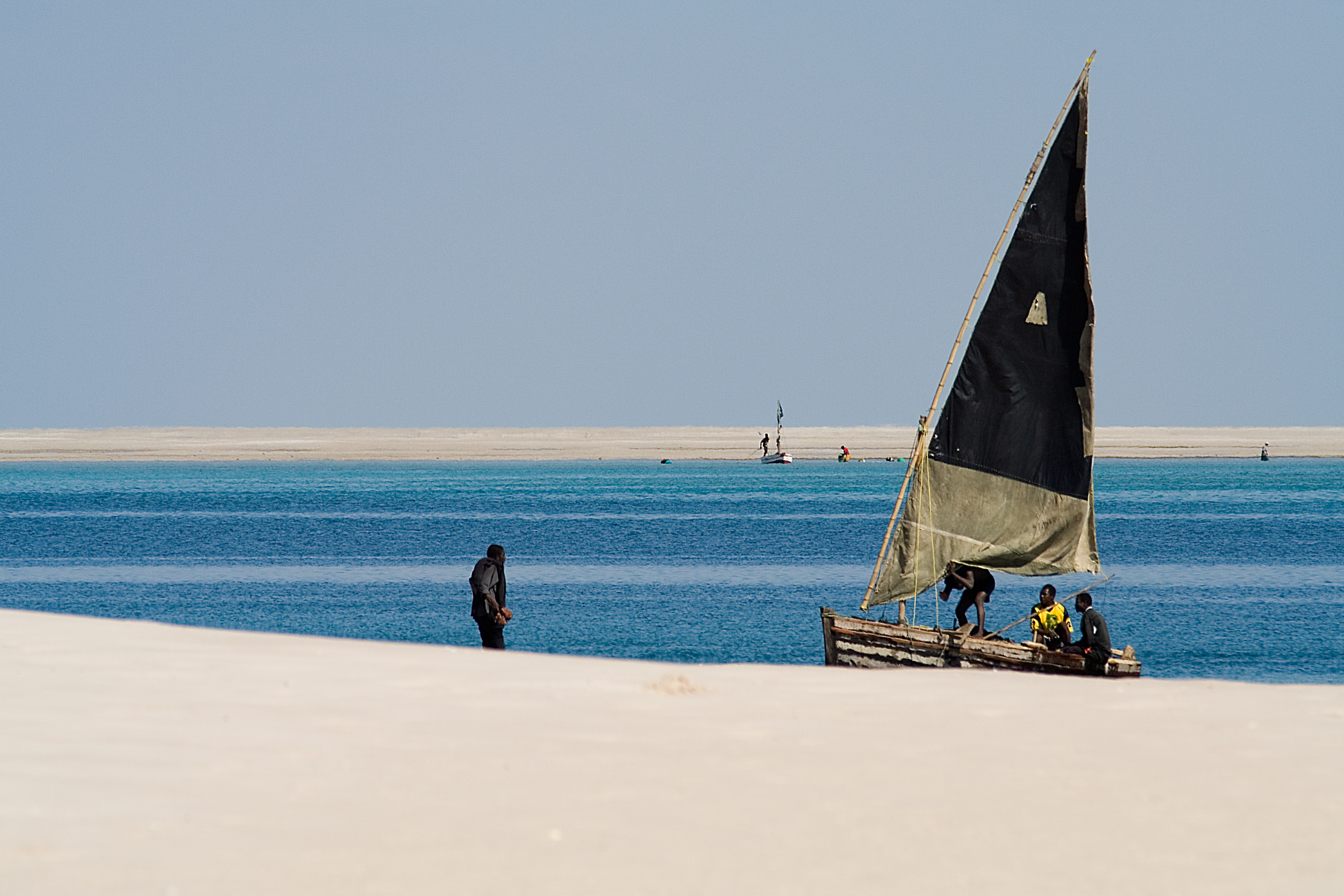 Taken by Julien Lagarde (myself), Magaruque Island, Mozambique, August 2006.